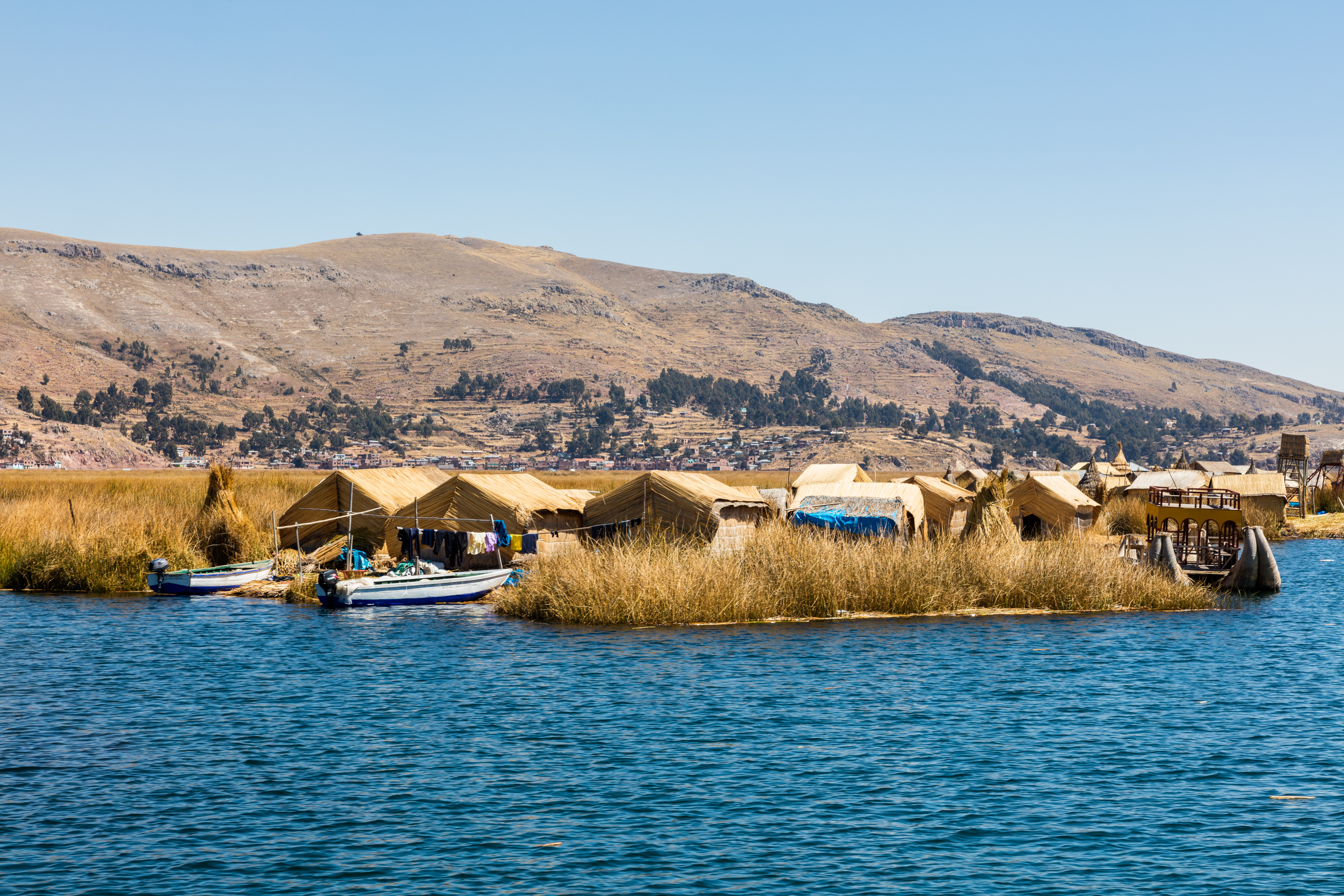 Uros floating islands, Titicaca Lake, Peru